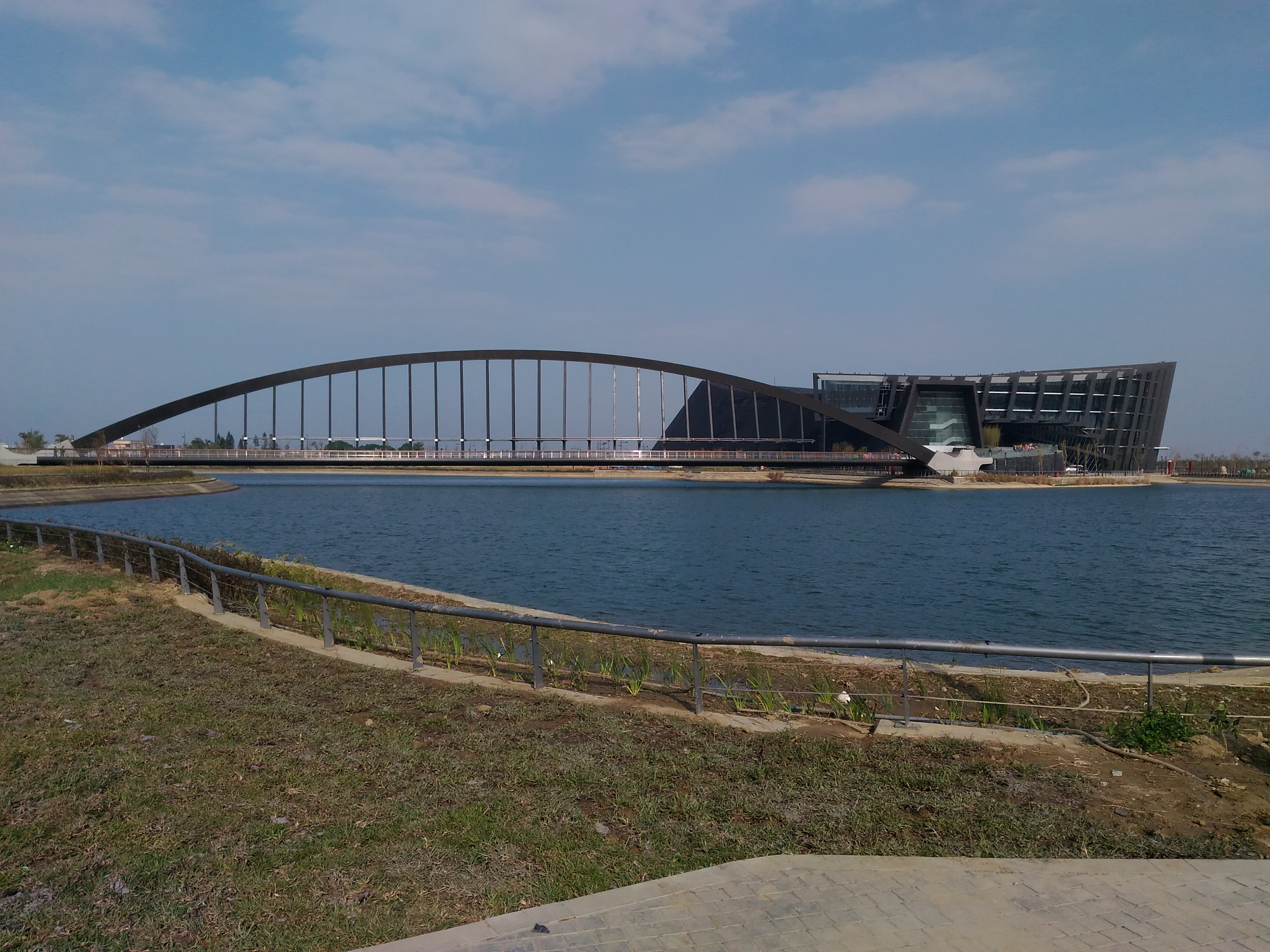 Southern Branch of the National Palace Museum main building and zhimei bridge.jpg